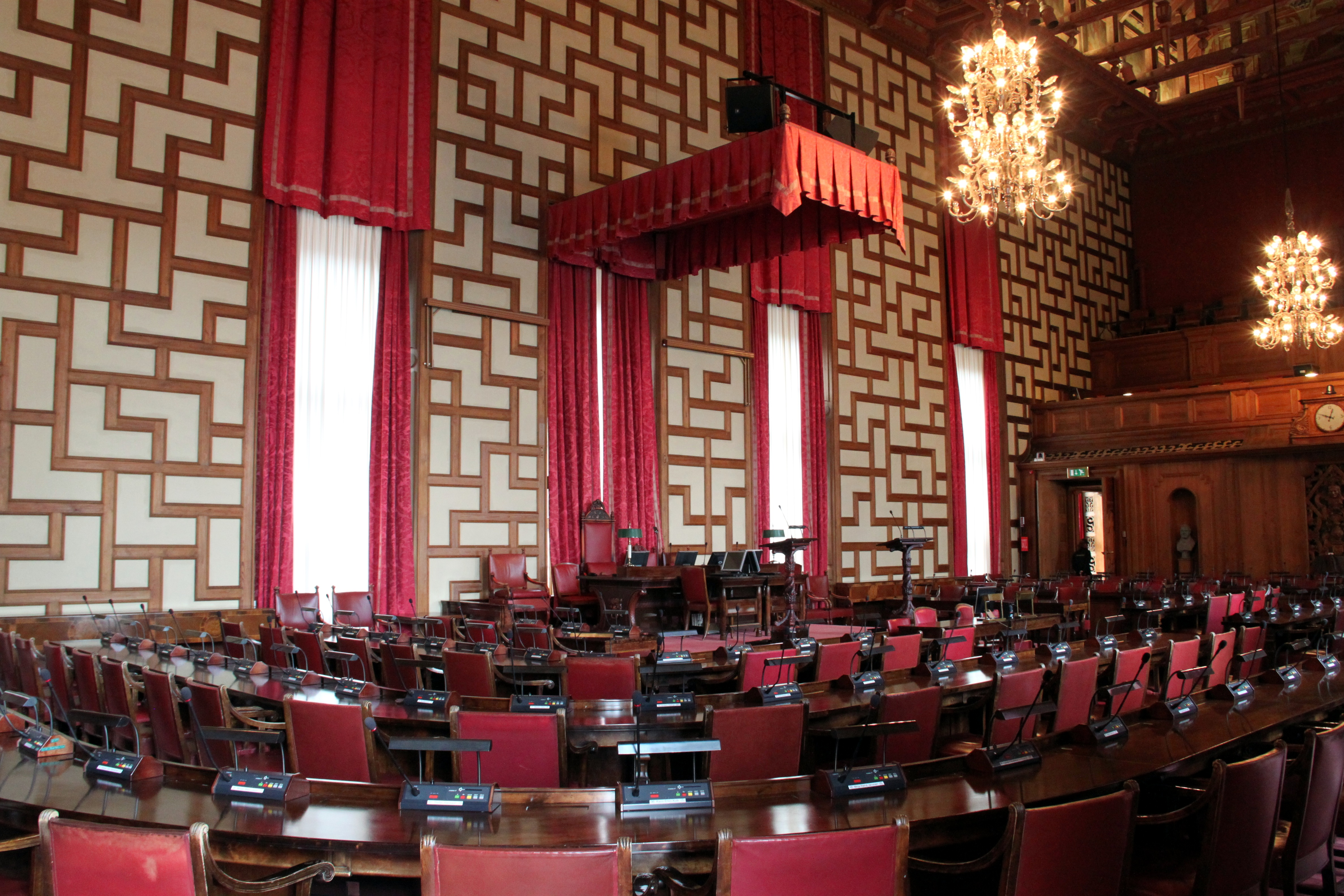 Stockholm City Hall, Rådsalen, 2012